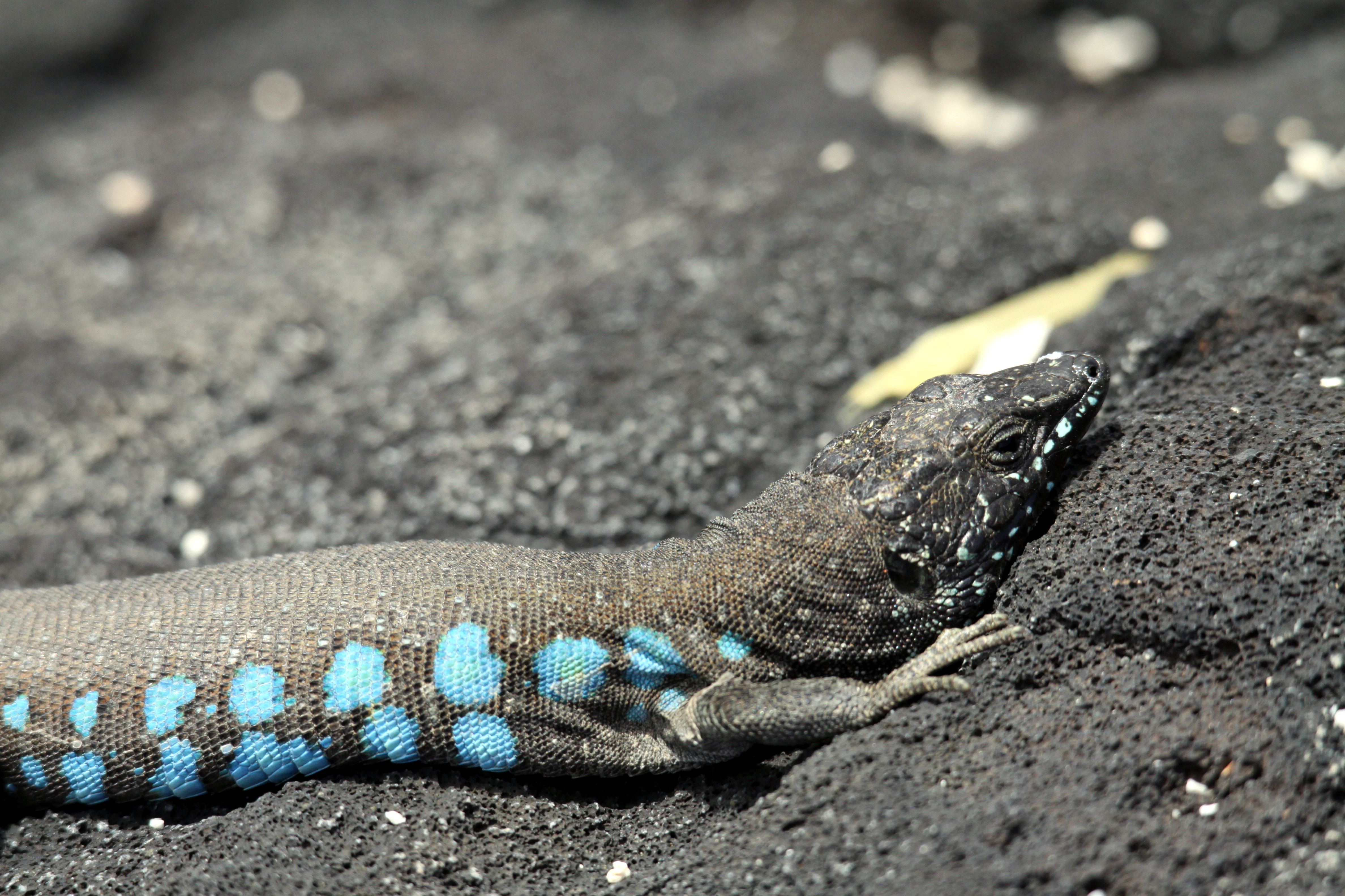 Gallotia atlantica photographed on Lanzarote close to Jameos del Agua, The Canary Islands, Spain - OpenStreetMap(Info)